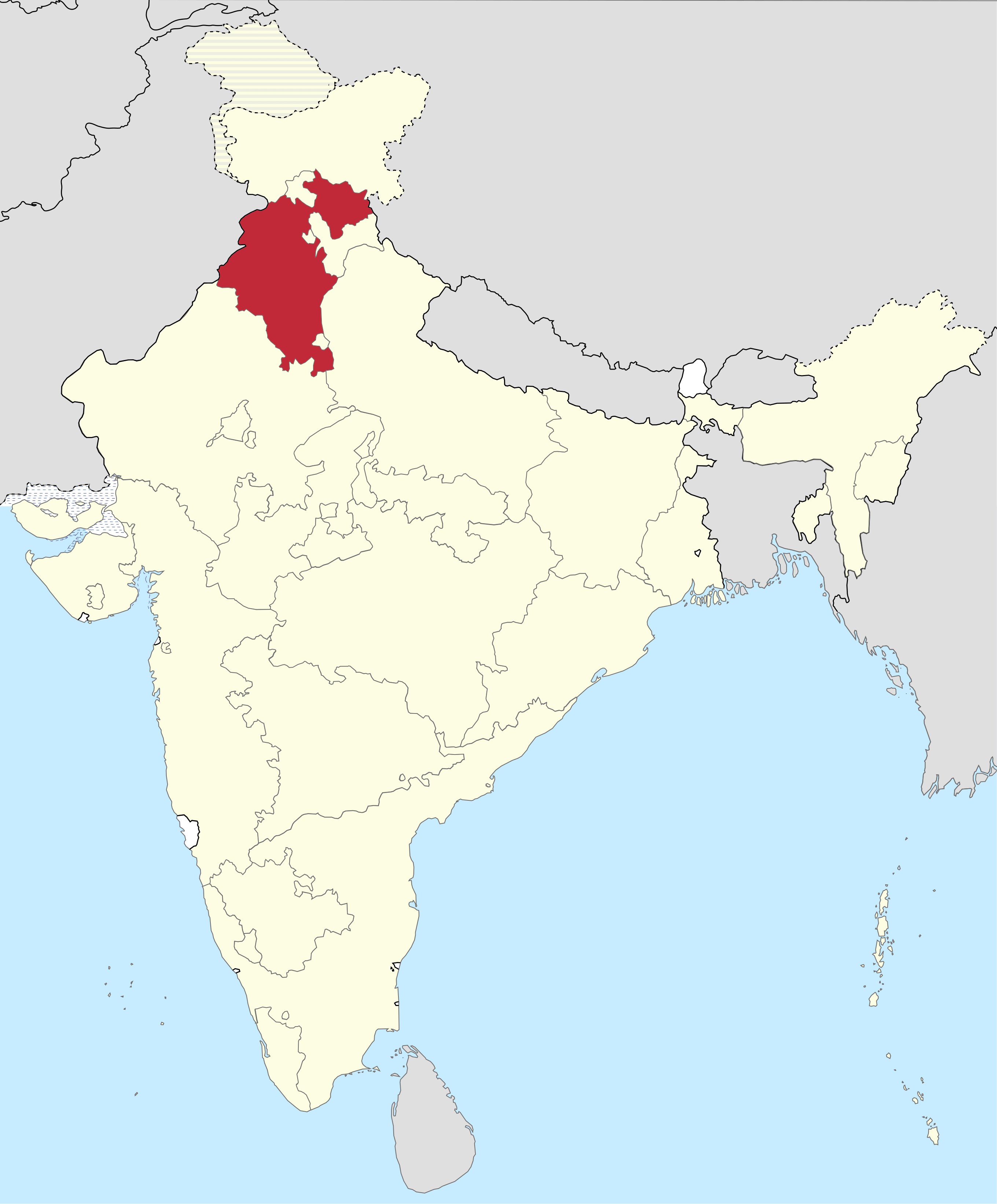 The Punjab state in India from 1956 to 1966.